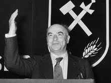 Otto Strasser giving a speech to his newly formed party, the German Social Union, a year after his return to Germany.